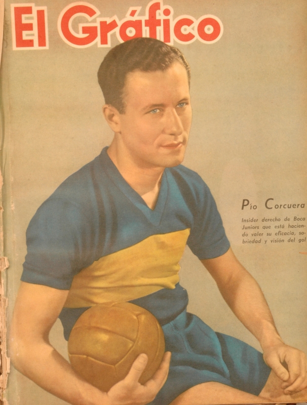 Argentine forward Pio Corcuera, covered on El Grafico sports magazine in 1943 wearing the Boca Juniors jersey, where he played from 1941 to 1948.